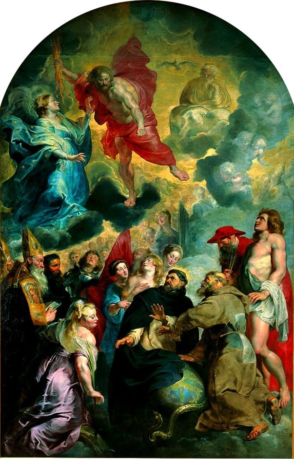 Saint Dominic and Saint Francis protecting the world from Jesus' wrathlabel QS:Len,"Saint Dominic and Saint Francis protecting the world from Jesus' wrath" label QS:Lfr,"Saint Dominique et saint François préservant le monde de la colère du Christ"